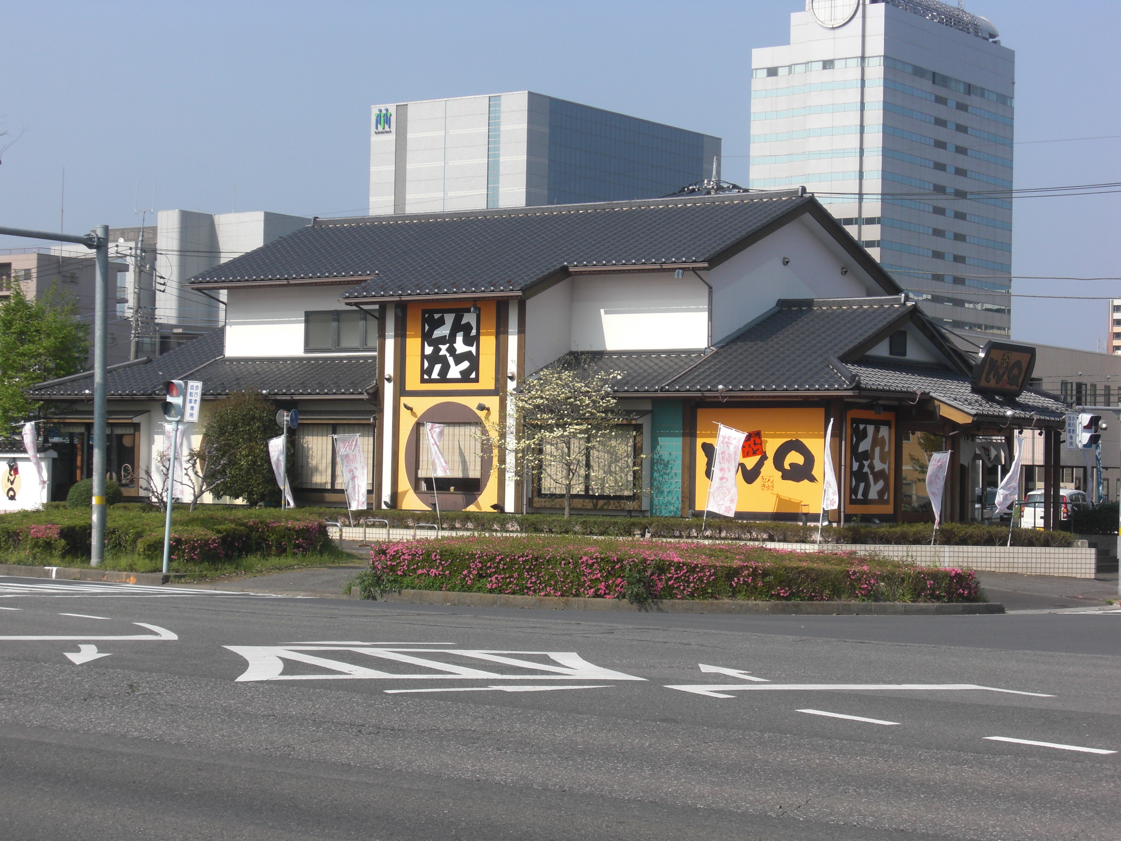 This is the TONQ Tsukuba Head Shop, which is in Higashiarai, Tsukuba, Ibaraki, Japan.